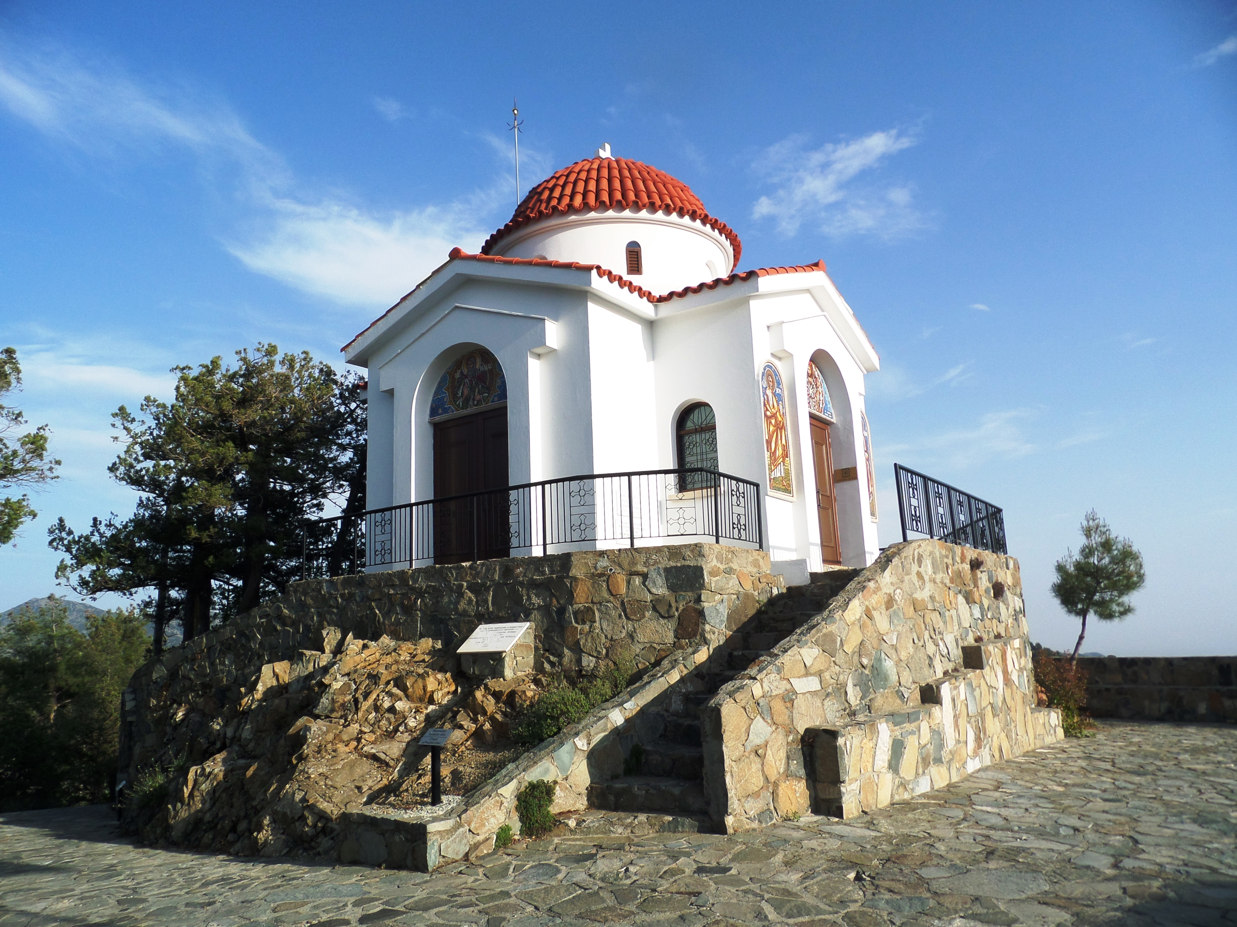 Saint Elijah church at Agridia.